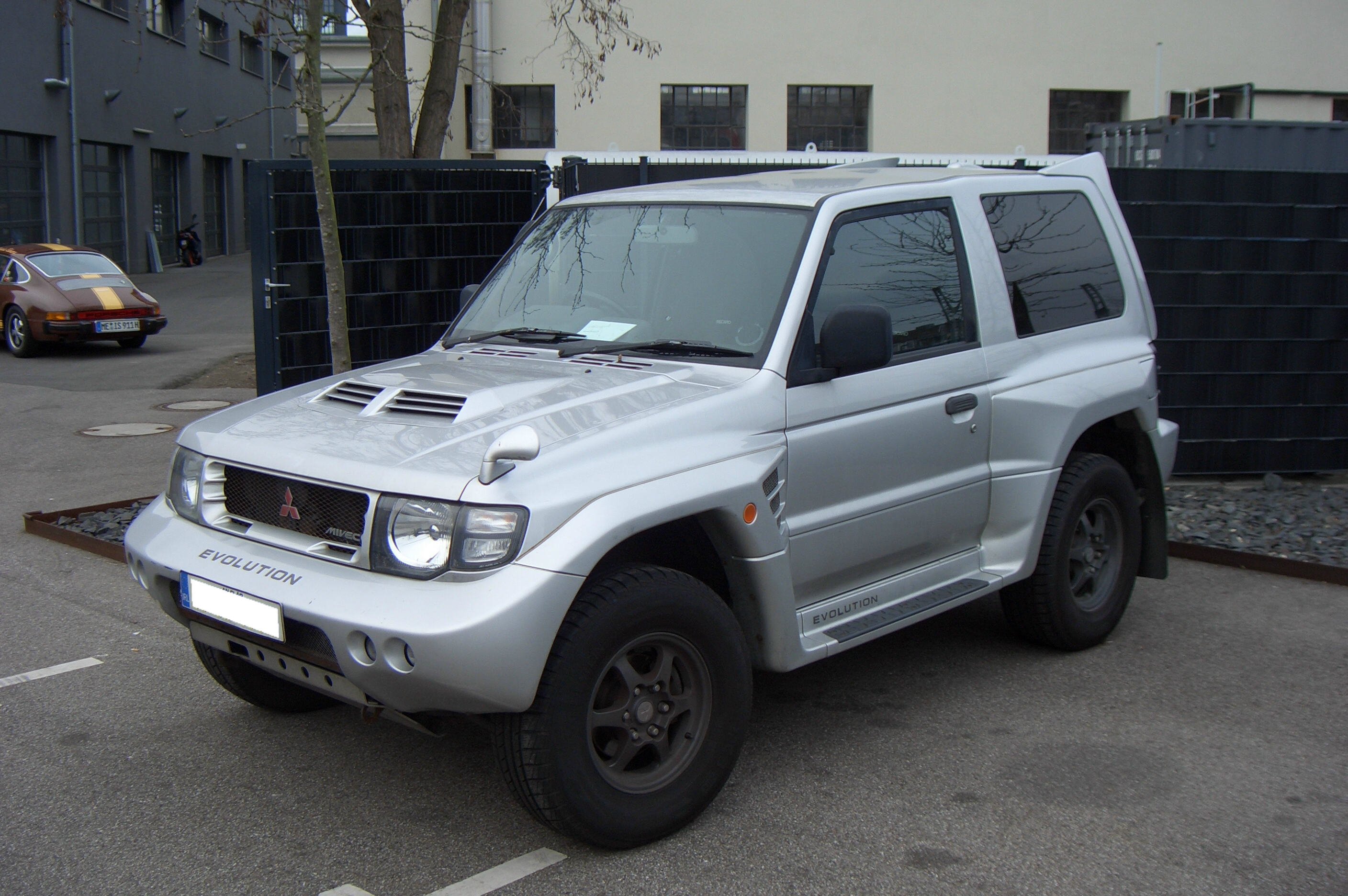 Mitsubishi Pajero Evolution (V55W), street version, 1997-1999